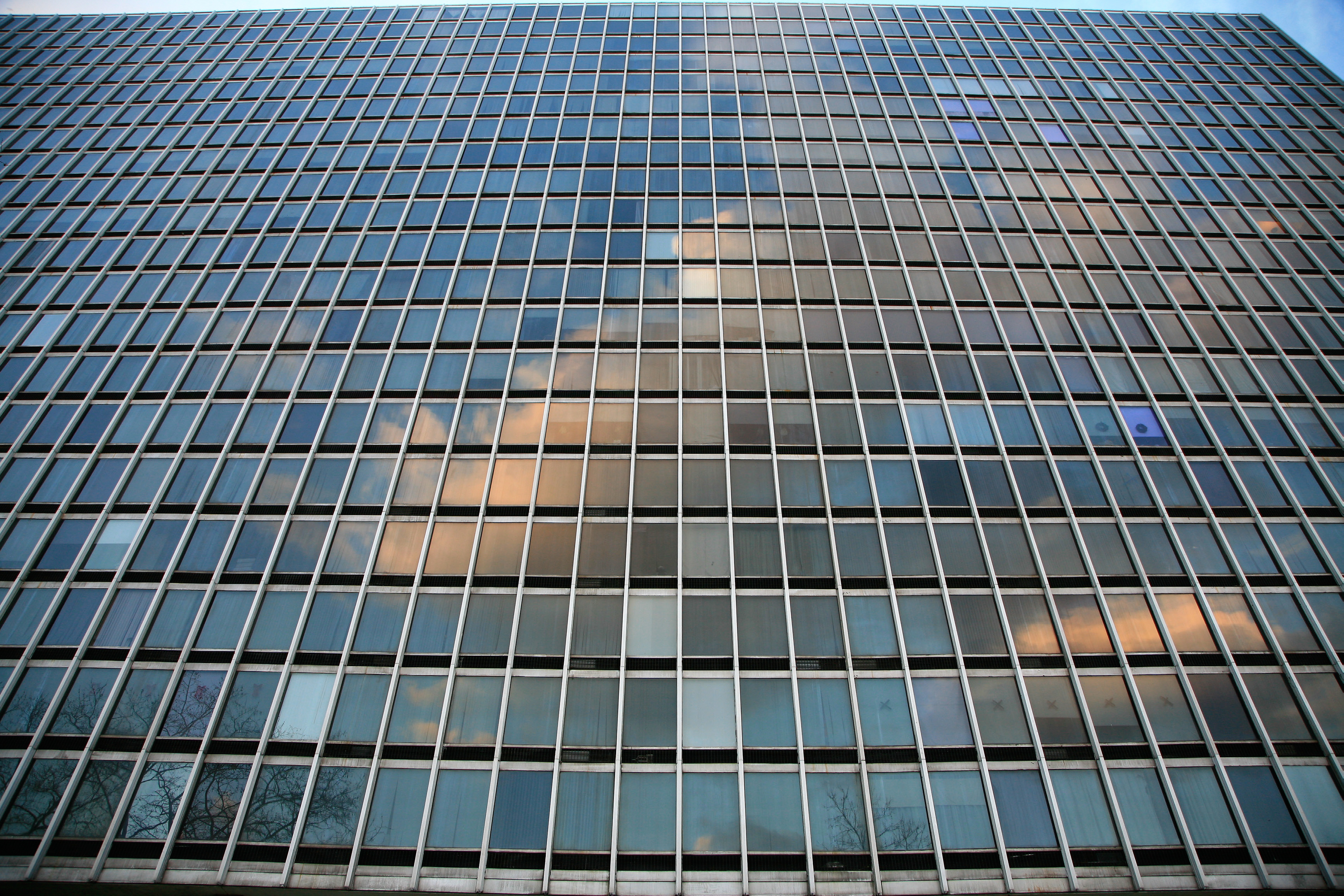 Colonnade Apartments Facade in Newark, NJ